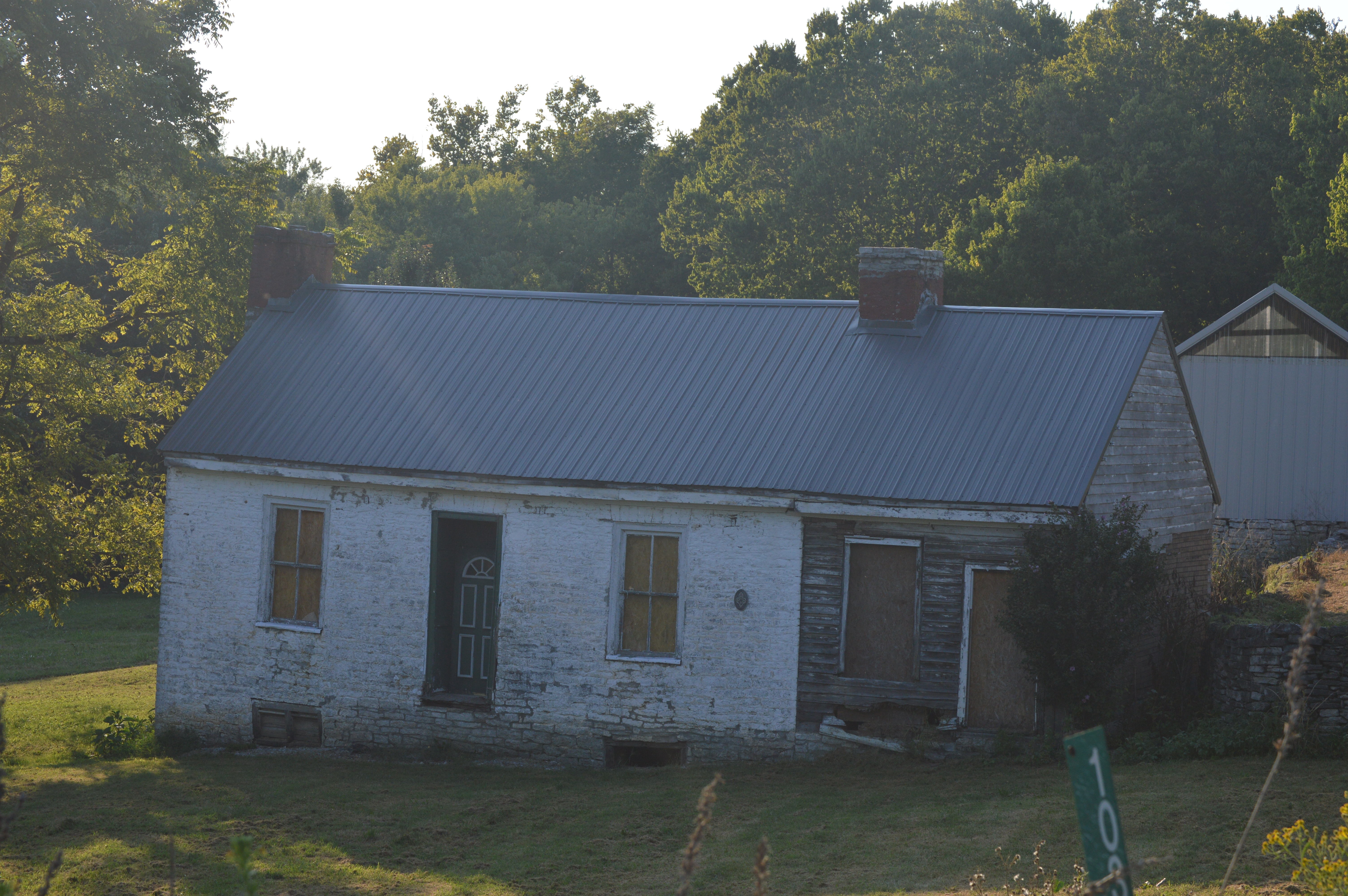 Front of the Miller's House at Ruddels Mills, located along Kentucky Route 1940 at Ruddels Mills, Kentucky, United States. Built near the end of the 18th century, the house is listed on the National Register of Historic Places.